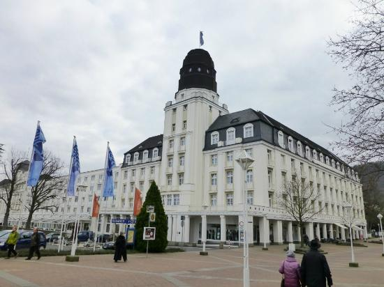 steigenbergerbna